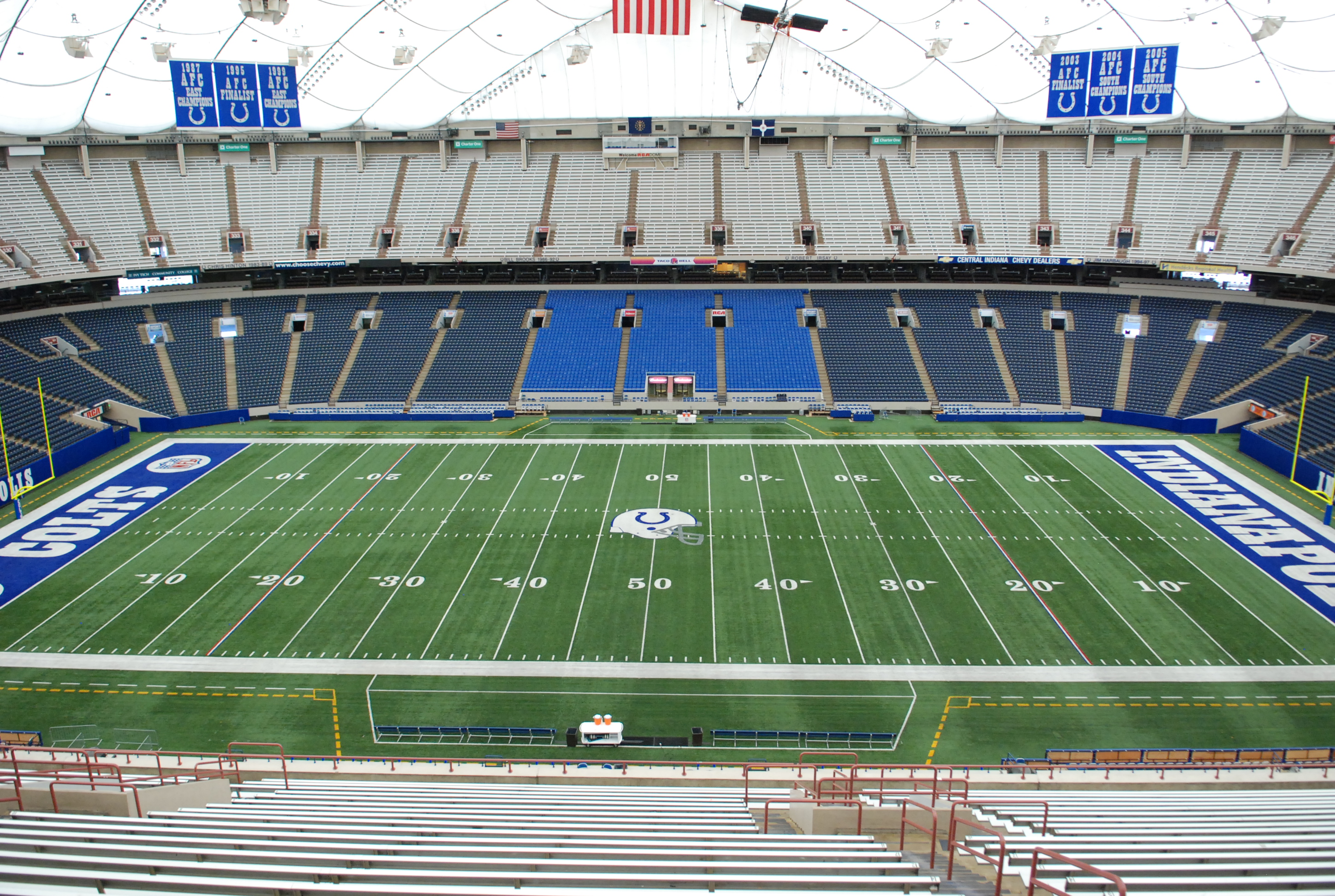 Indianapolis Colts RCA Dome